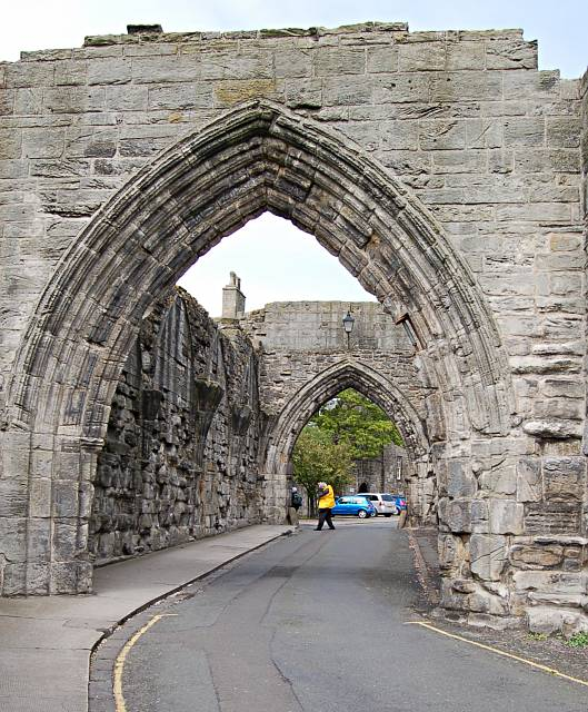 The Pends, St Andrews. View through the Pends out to the town. This was the gateway to the old monastery of St Andrews built around the 1300s